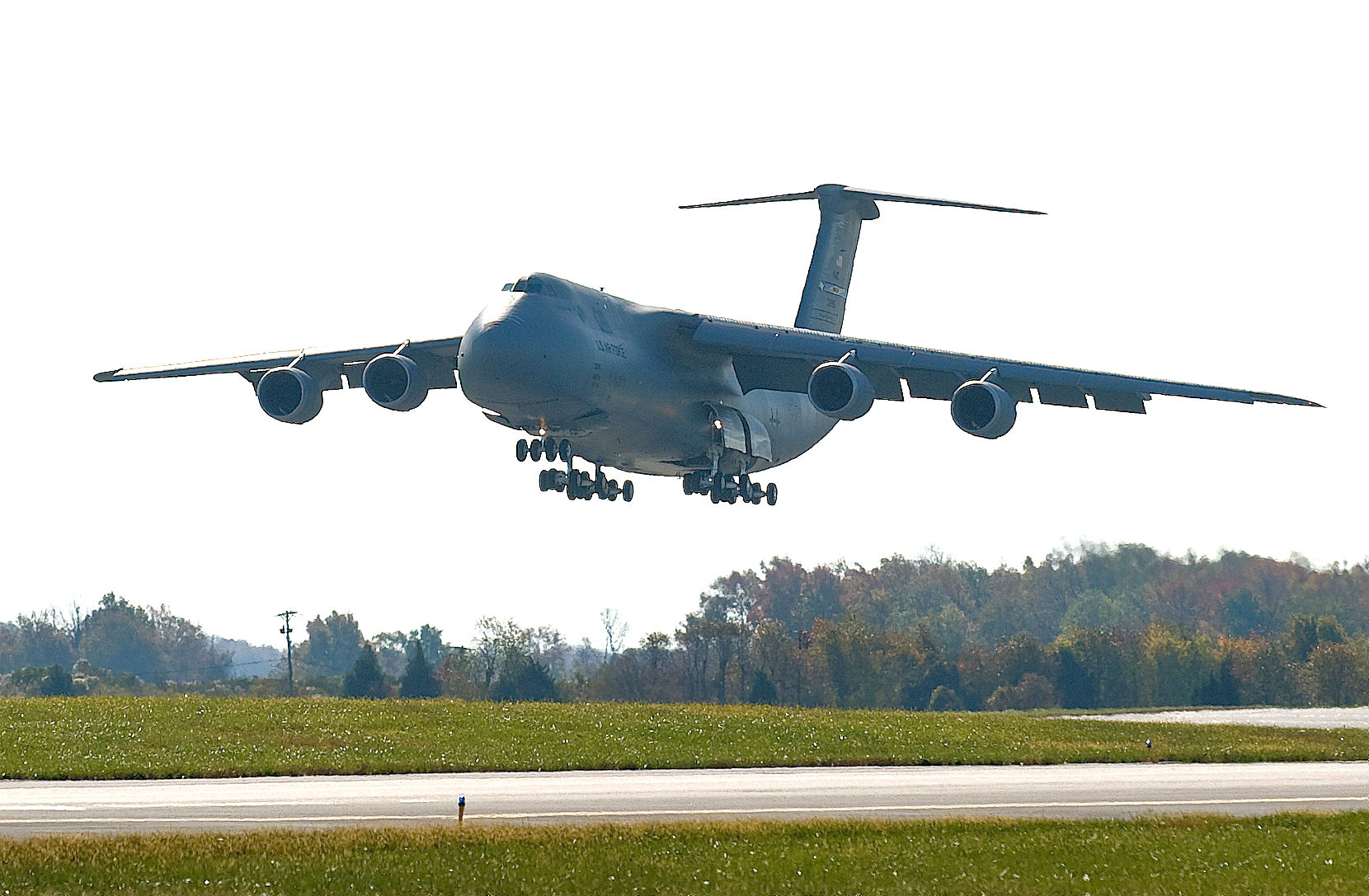 The Spirit of Old Glory, the fourth C-5M Super Galaxy delivered to the 436th Airlift Wing, arrives at Dover Air Force Base, Del., Nov. 6, 2010. This C-5M was the first production C-5M delivered to the Air Force, following the three already delivered to the 436th Airlift for Operational Testing and Evaluation. (U.S. Air Force photo/Jason Minto Released)